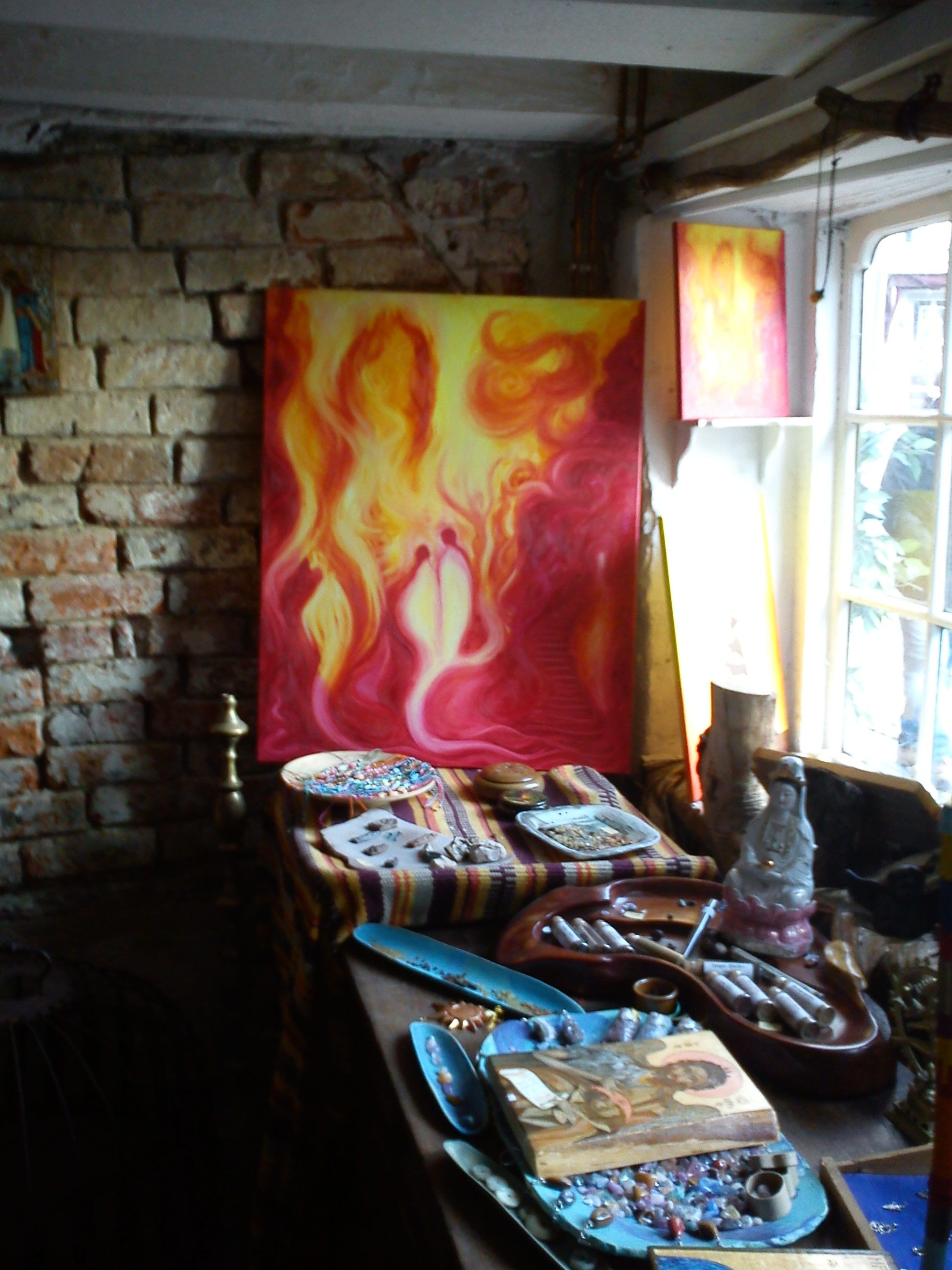 Interior of the Shipper's House, ground floor, collection of arts, artist Kyra Roggendorf